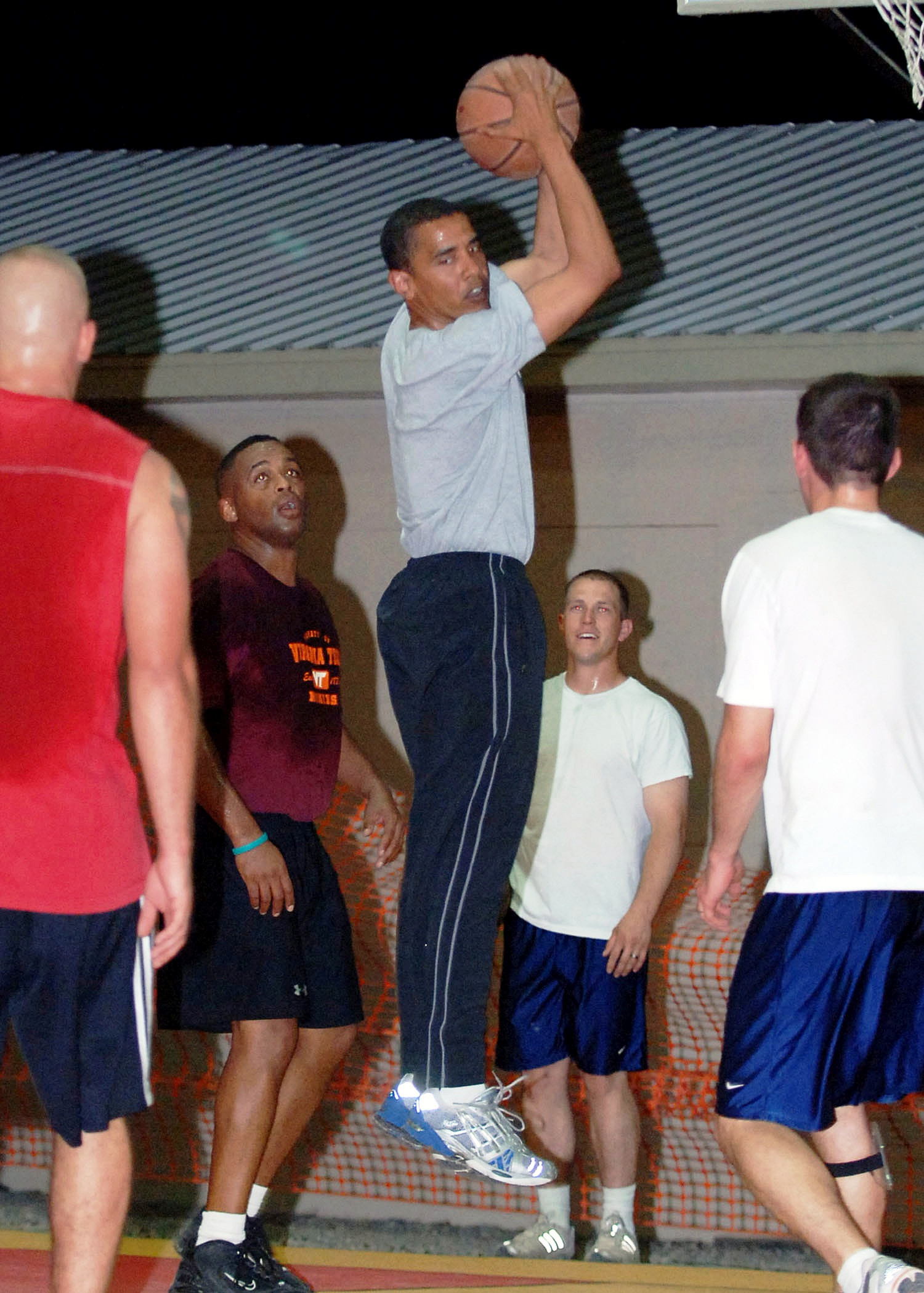 Senator Barack Obama (D-Ill.), rebounds the ball during a basketball game with U.S. military service members from Combined Joint Task Force-Horn of Africa during his visit at Camp Lemonier, Djibouti, on Aug. 31, 2006. Sen. Obama is touring Kenya, Djibouti and flood-damaged areas of Ethiopia. The CJTF-HOA works to prevent conflict, promote regional stability and protect Coalition interests in Kenya, Somalia, Ethiopia, Sudan, Eritea, Djibouti and Yemen through humanitarian assistance, disaster relief and civic action programs. (U.S. Navy photo by Chief Mass Communication Specialist Eric A. Clement) (Released) (Released to Public)